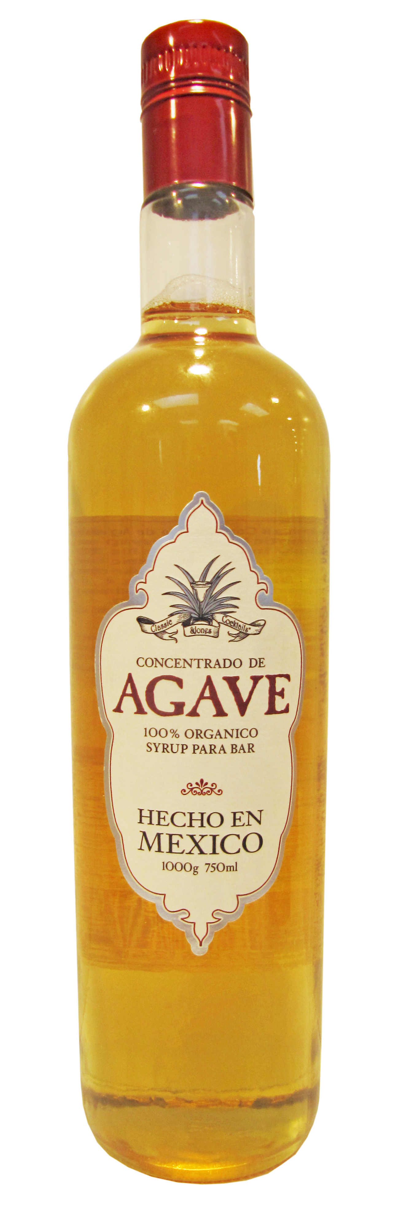 Agave syrup for cocktail mixology